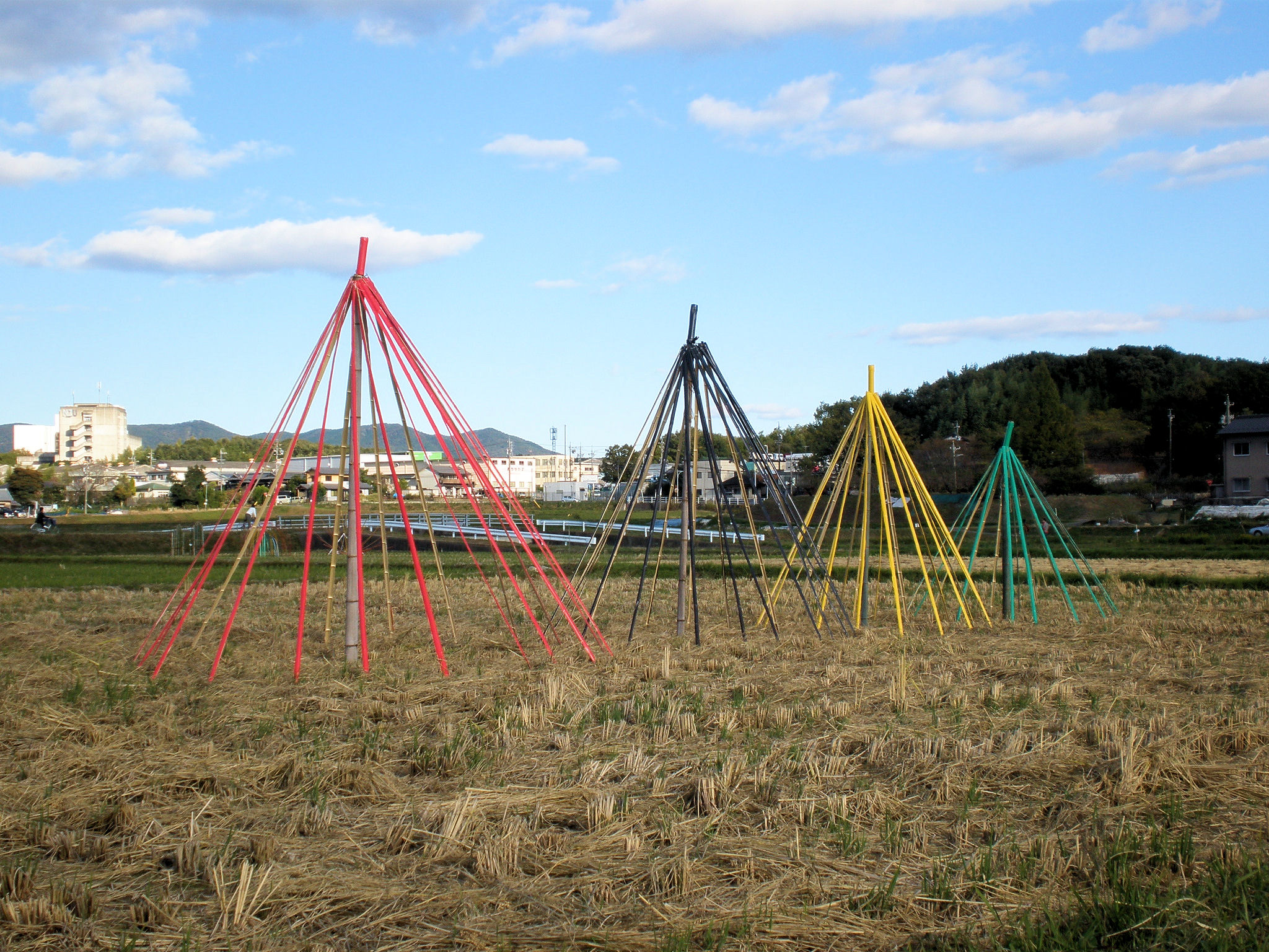 Bamboo Installation in Okusa, Komaki, Aichi Pref, Japan